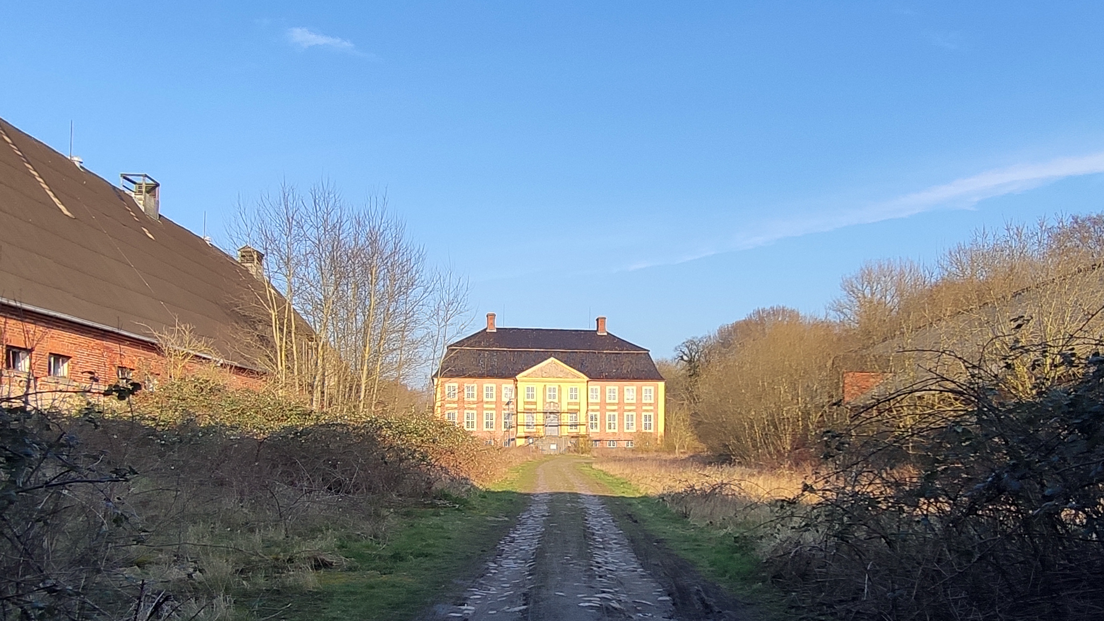 Castle Johannstorf, March 2020